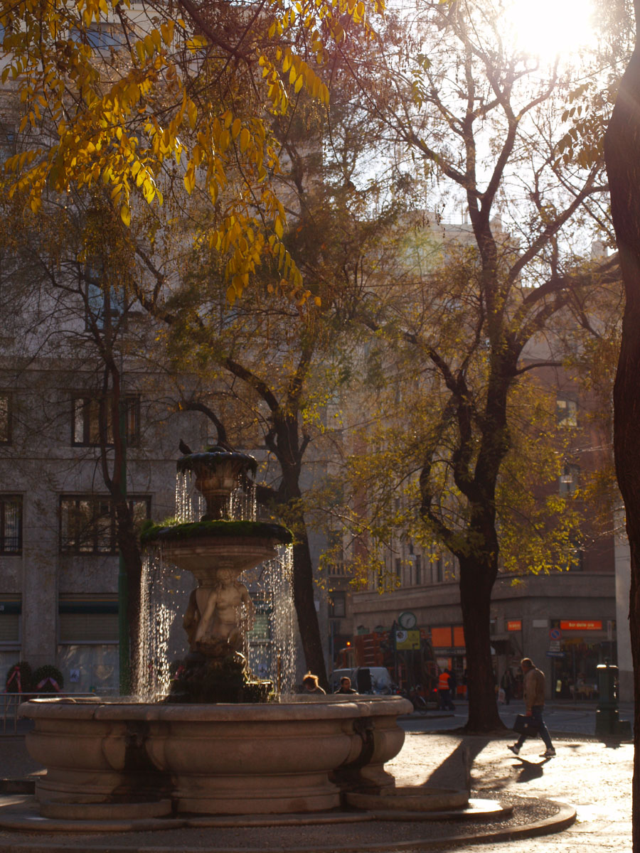 The neo-classical fountain created by Giuseppe Piermarini (1734-1808) and sculpted by Giuseppe Franchi in Piazza Fontana in Milan, Italy, was completed in 1782. (Picture taken on December 12, 2007)